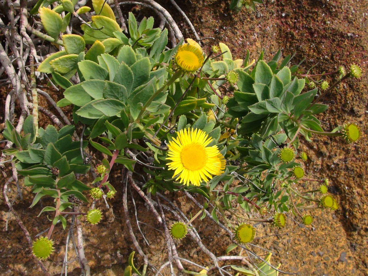 Vieraea laevigata. W Tenerife, Punta de Lerma (W of Punta del Fraile), rocks above coastal street, ca. 100 m above sea level.